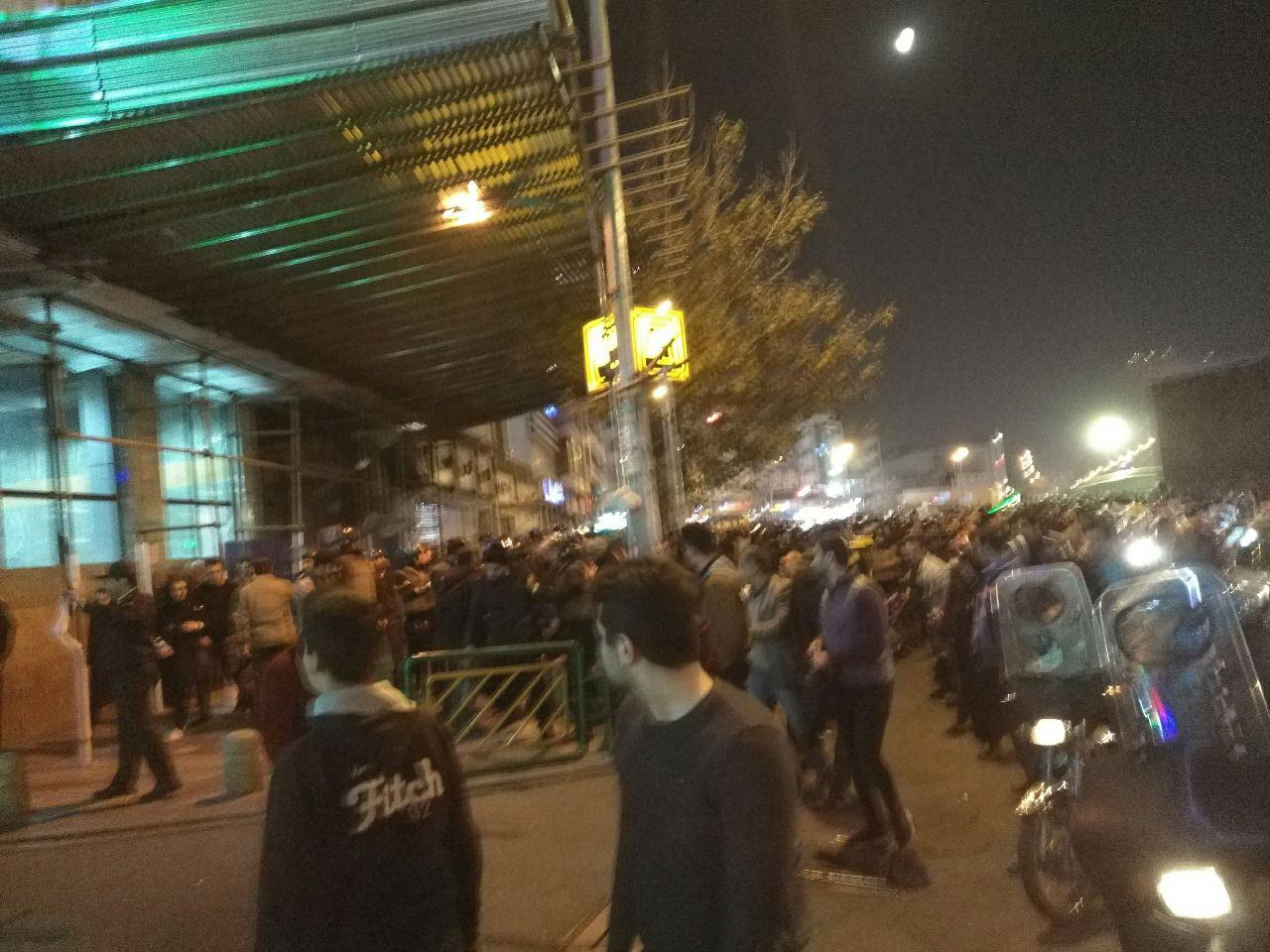 Police are organized and separating people, People do not have weapons or co-ordination, but their number is high. photo1 free to share. (Tehran)